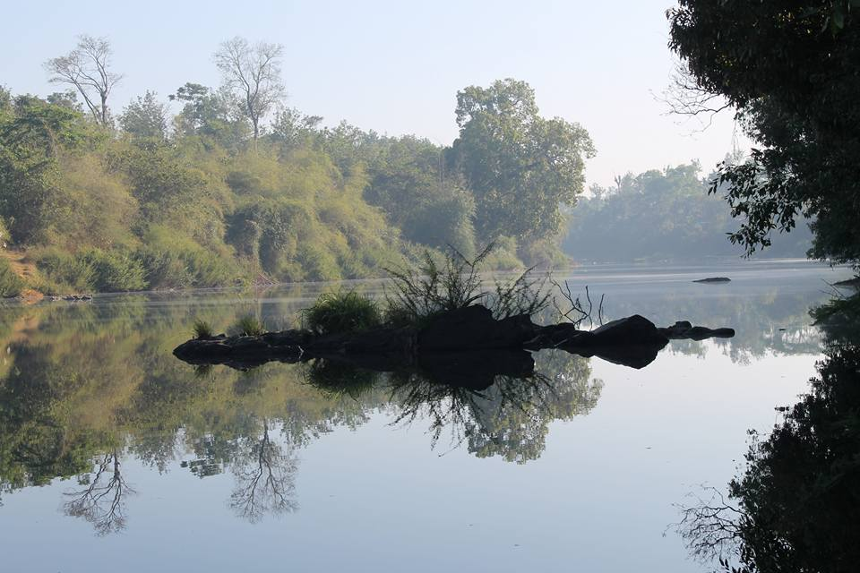 Kaveri river